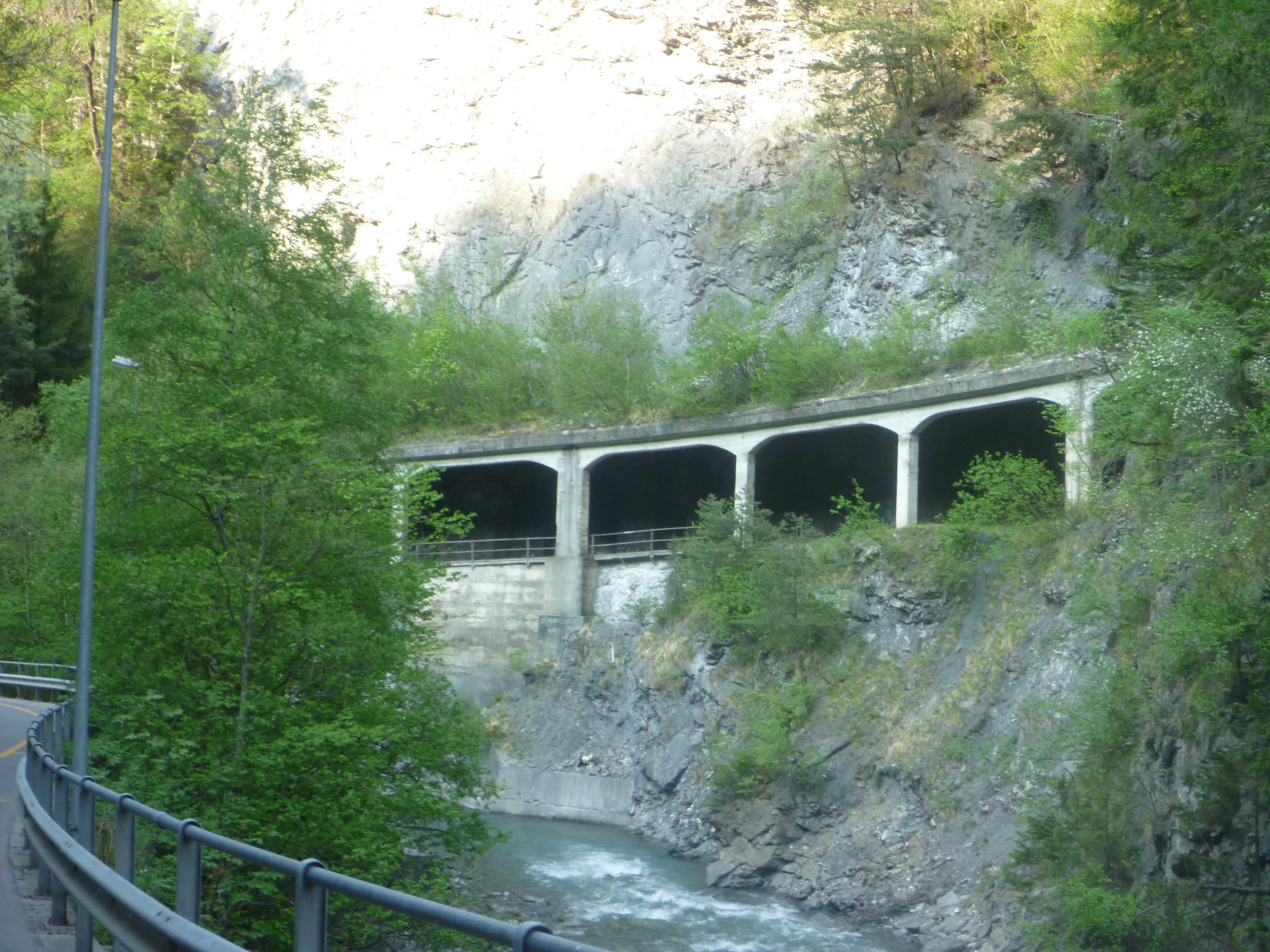 Chur-Arosa railway above river Plessur, section between Chur and Lüen-Castiel